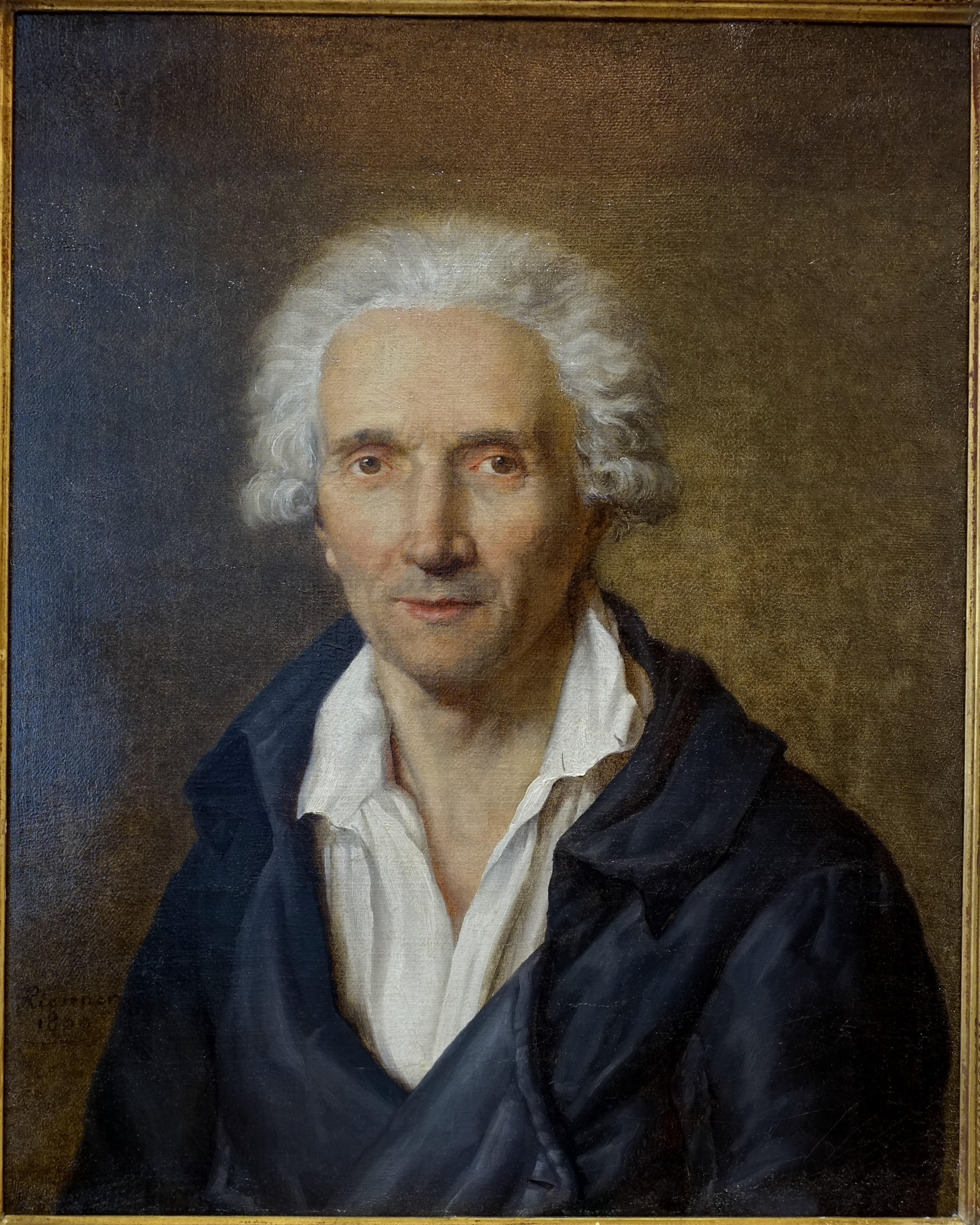 Painting in in Waddesdon Manor - Buckinghamshire, England.